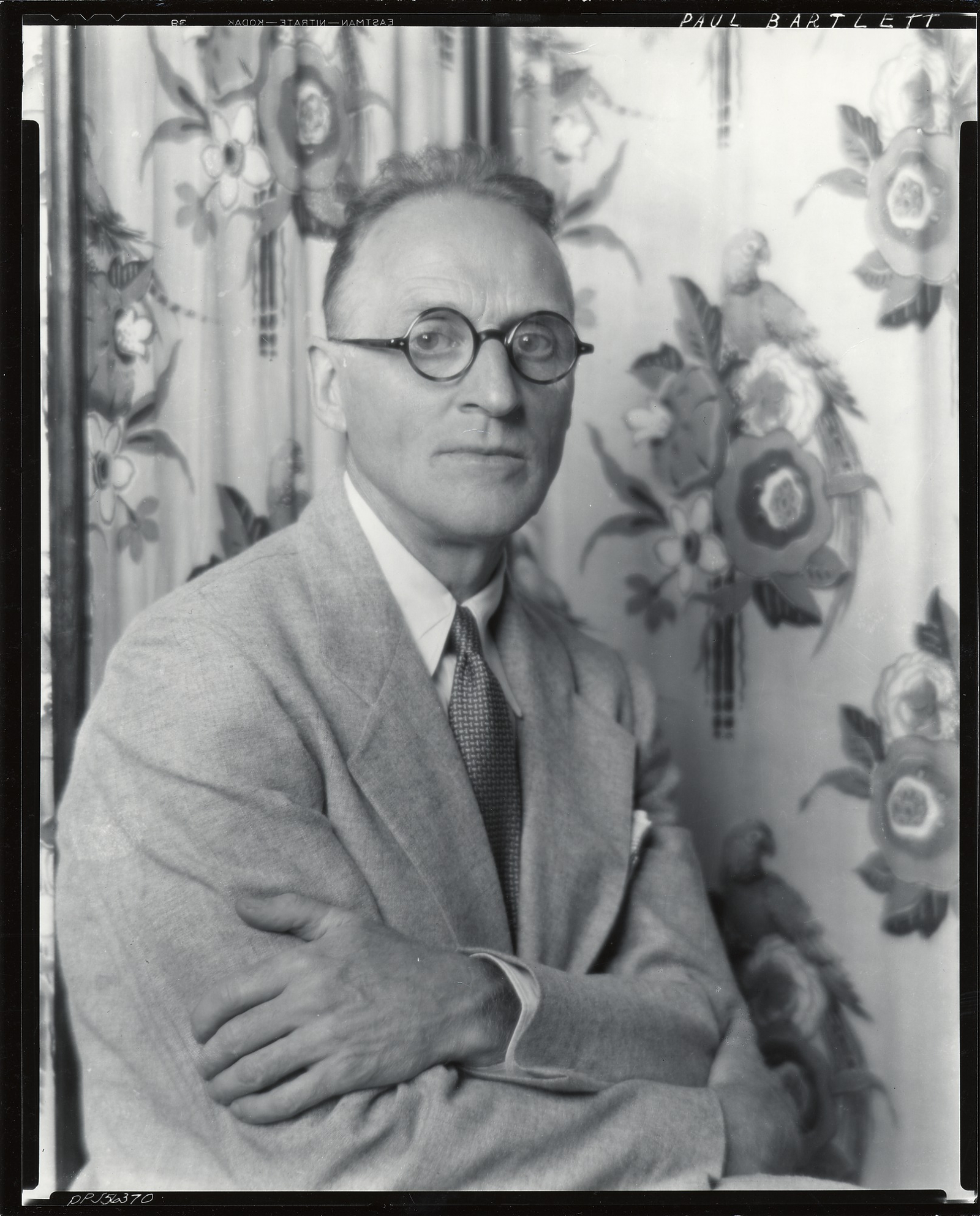 Description: Paul Bartlett (1881-1965) was an American painter, art teacher and poet. Creator/Photographer: Peter A. Juley & Son Medium: Black and white photographic print Dimensions: 8 in x 10 in Culture: American Repository: Archives of American Art Native nameArchives of American ArtParent institutionSmithsonian InstitutionLocationWashington, D.C.Coordinates38° 53′ 52.44″ N, 77° 01′ 21.72″ W Established1954Web page control : Q2860568 VIAF: 151134814 ISNI: 0000 0001 2185 0758 LCCN: n79065944 NLA: 35007823 GND: 1023549-8 WorldCat institution QS:P195,Q2860568 Collection: Peter A. Juley & Son Collection - The Peter A. Juley & Son Collection is comprised of 127,000 black-and-white photographic negatives documenting the works of more than 11,000 American artists. Throughout its long history, from 1896 to 1975, the Juley firm served as the largest and most respected fine arts photography firm in New York. The Juley Collection, acquired by the Smithsonian American Art Museum in 1975, constitutes a unique visual record of American art sometimes providing the only photographic documentation of altered, damaged, or lost works. Included in the collection are over 4,700 photographic portraits of artists. This image or file is a work of a Smithsonian Institution employee, taken or made as part of that person's official duties. As a work of the U.S. federal government, the image is in the public domain in the United States. Accession number: J0056370